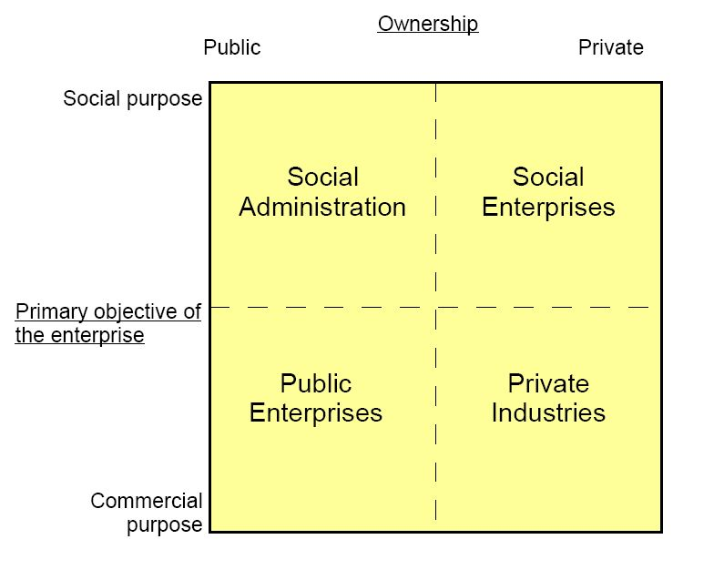 Kukovetz, Brigitte; Leonhardt, Manfred; Loidl-Keil, Rainer